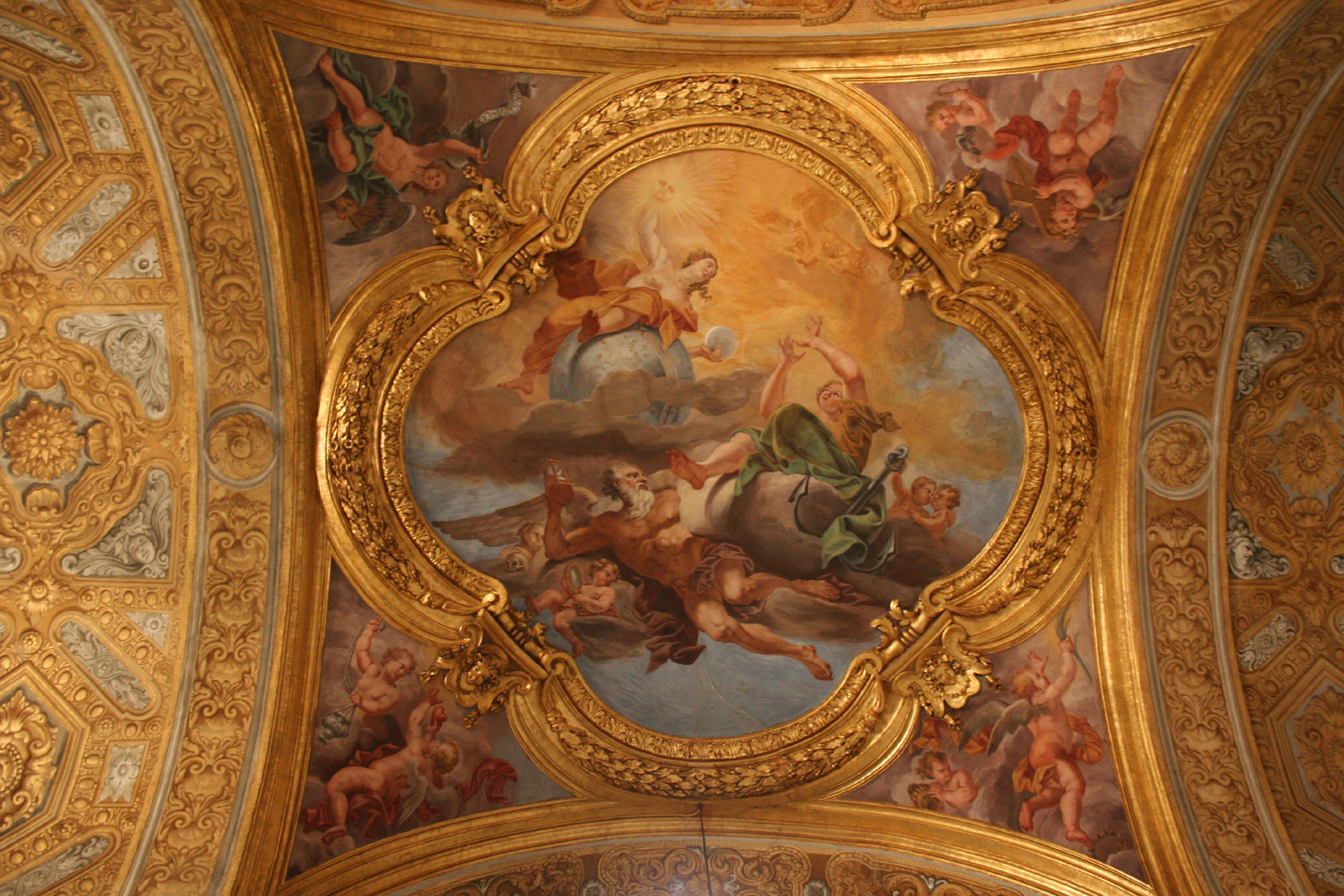 Frescoe in the Vault above the left nave of Santi Ambrogio e Carlo in Rome, depicting "Hope and Truth" by Pio Paolini